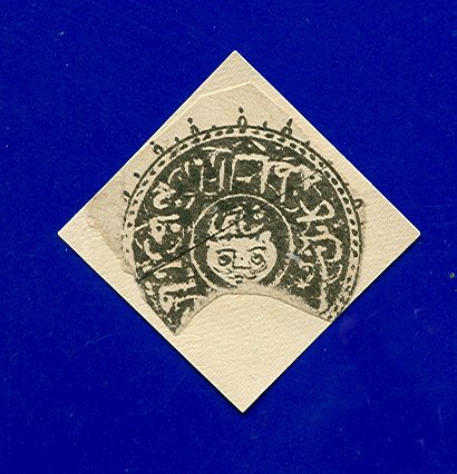 This is a digital image I made of a stamp I owned.